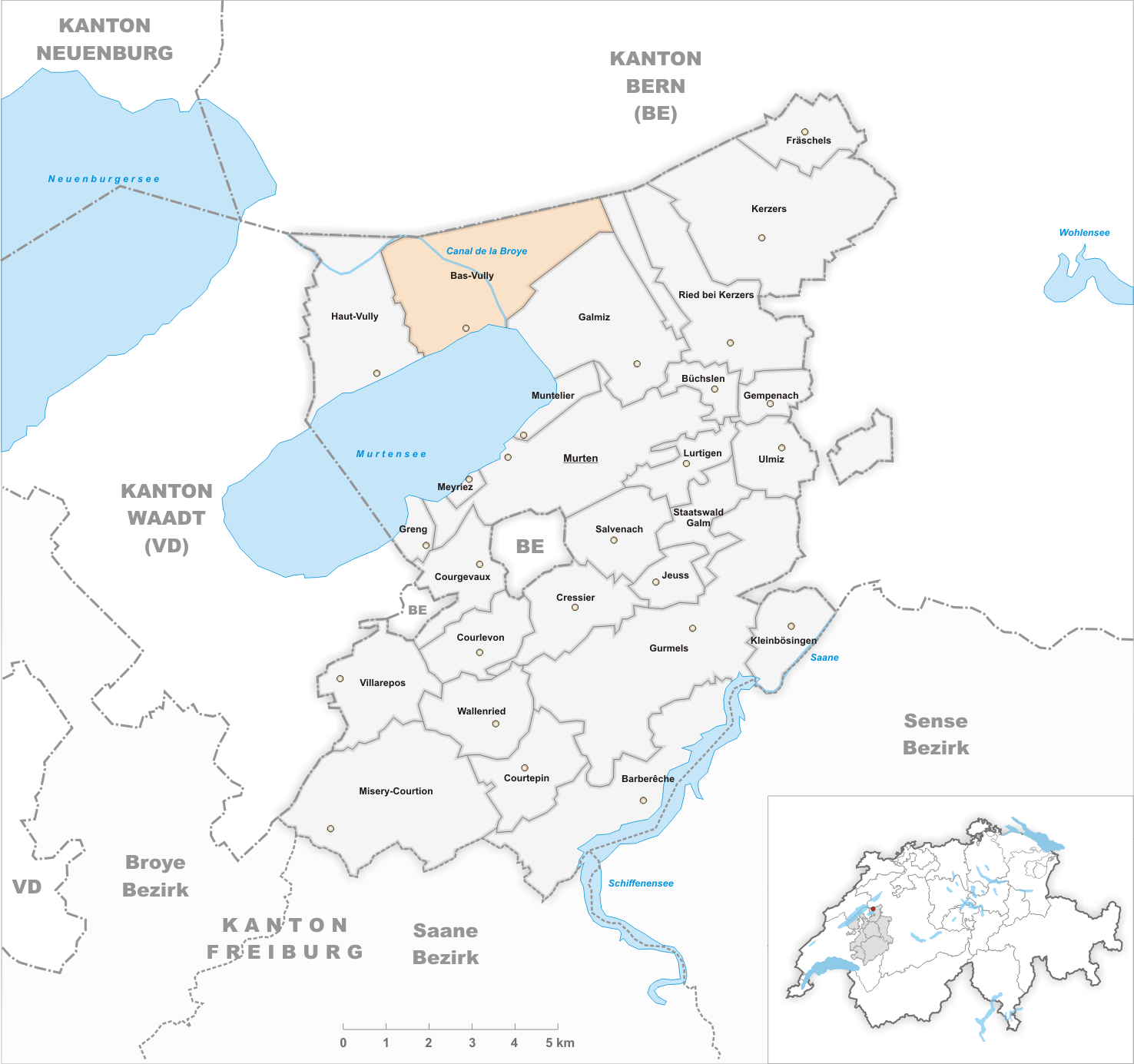 Municipality Bas-Vully